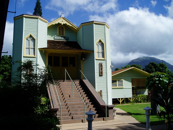 Photo of the Hokoji Shingon Mission in downtown Lahaina. A Japanese Buddhist temple.